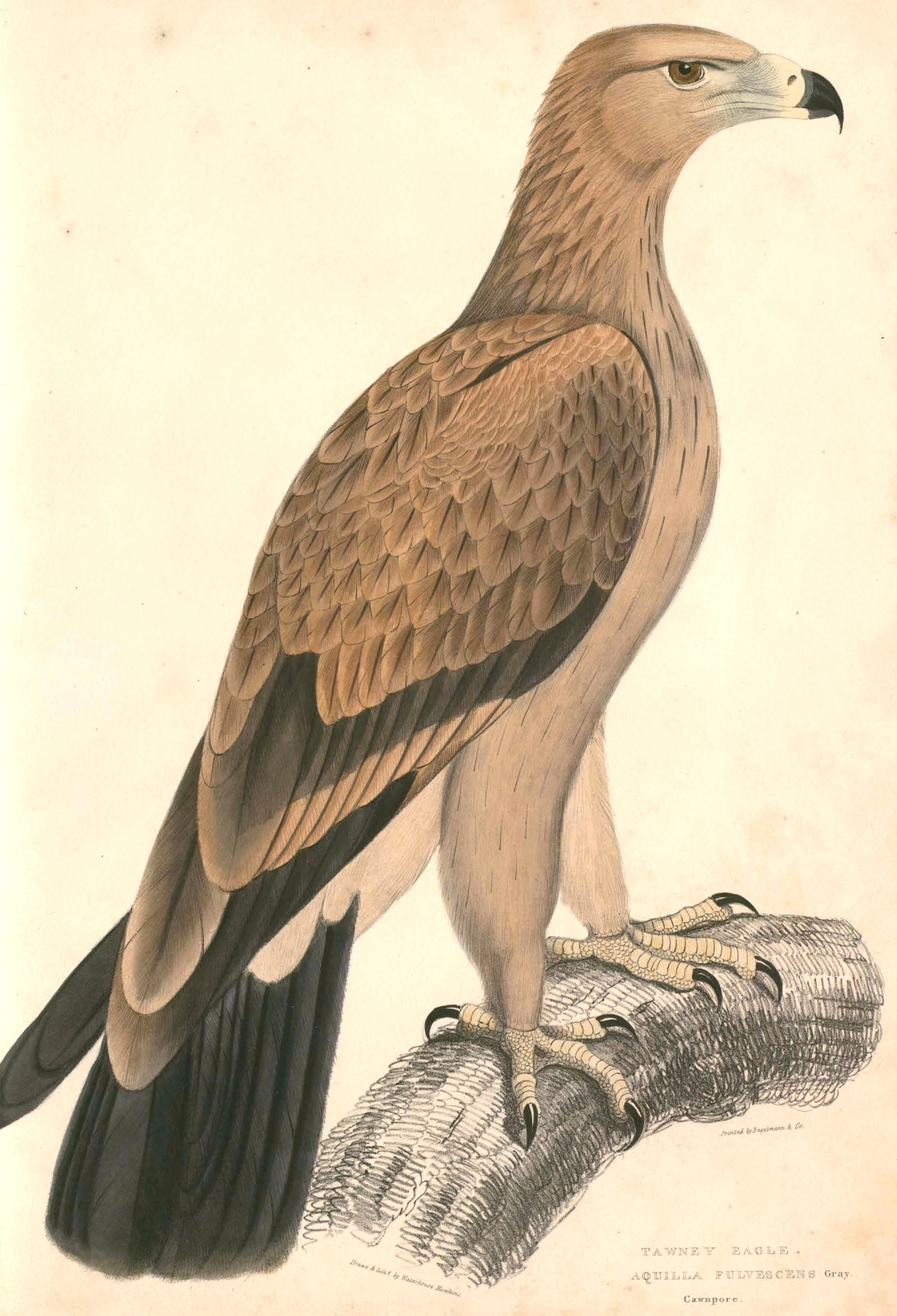 « Aquila fulvescens » = Aquila clanga (Greater Spotted Eagle)